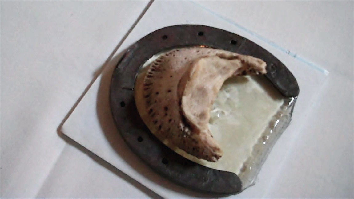 The coffin bone of a horse (third phalanx, aka "pedal bone") placed over a horseshoe, demonstrating how the shape of a horseshoe is supposed to match the shape of the horse's hoof, and the hoof's shape is determined by the horse's underlying skeletal structure